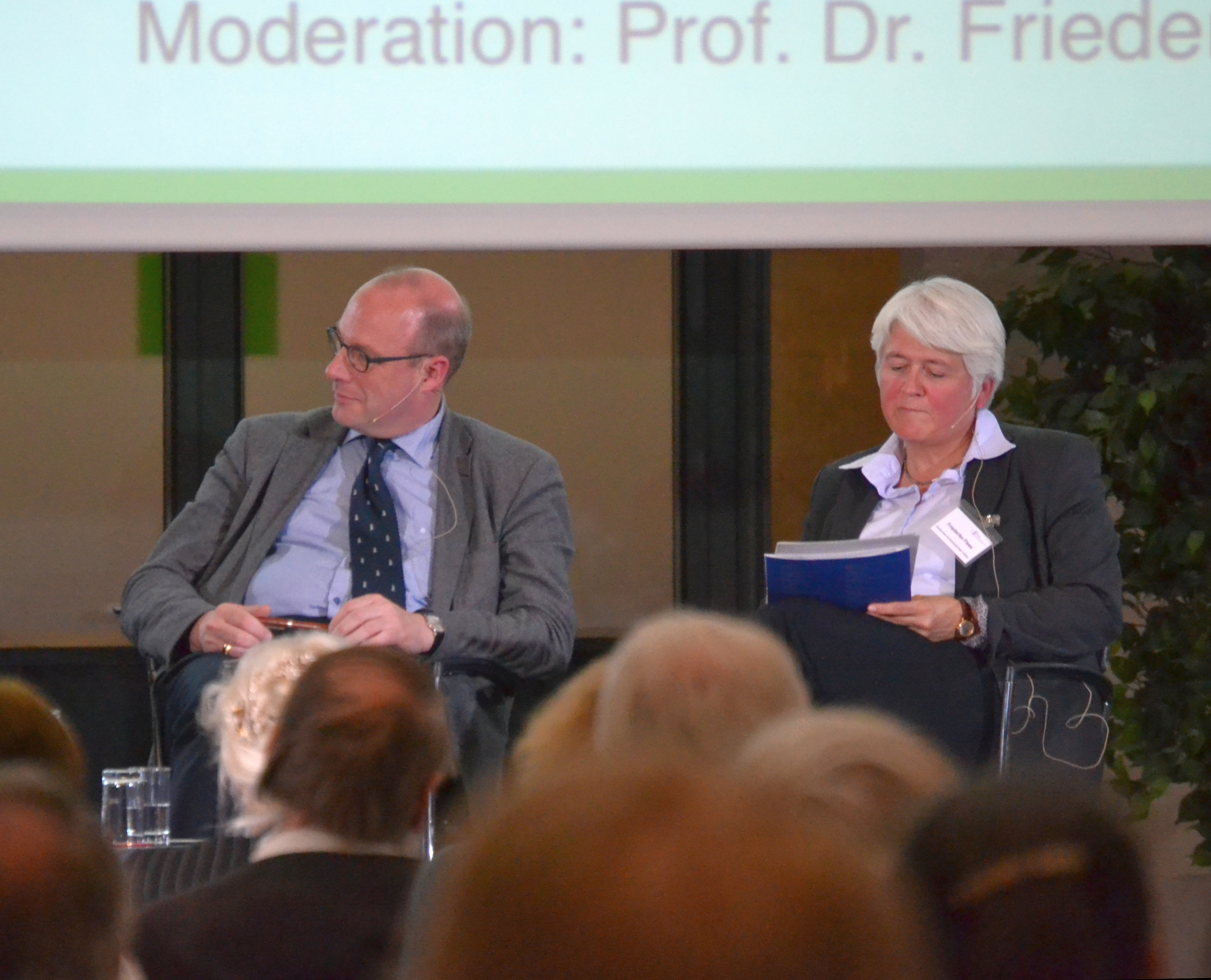 Academies day 2015 at the Berlin-Brandenburg Academy of Science in Berlin; Theme: "Old world today: Perspectives and threats". Image:Podeum discussion 'Bewahrung vor Zerstörung', from right to left: Professor of Ecclesiastical History Christoph Markschies, vice president of the Berlin-Brandenburg Academy of Science and former Rektor of the Humboldt-University of Berlin; Classical Archaeologist Professor Freiderike Fless, President of the German Archaeological Institute.